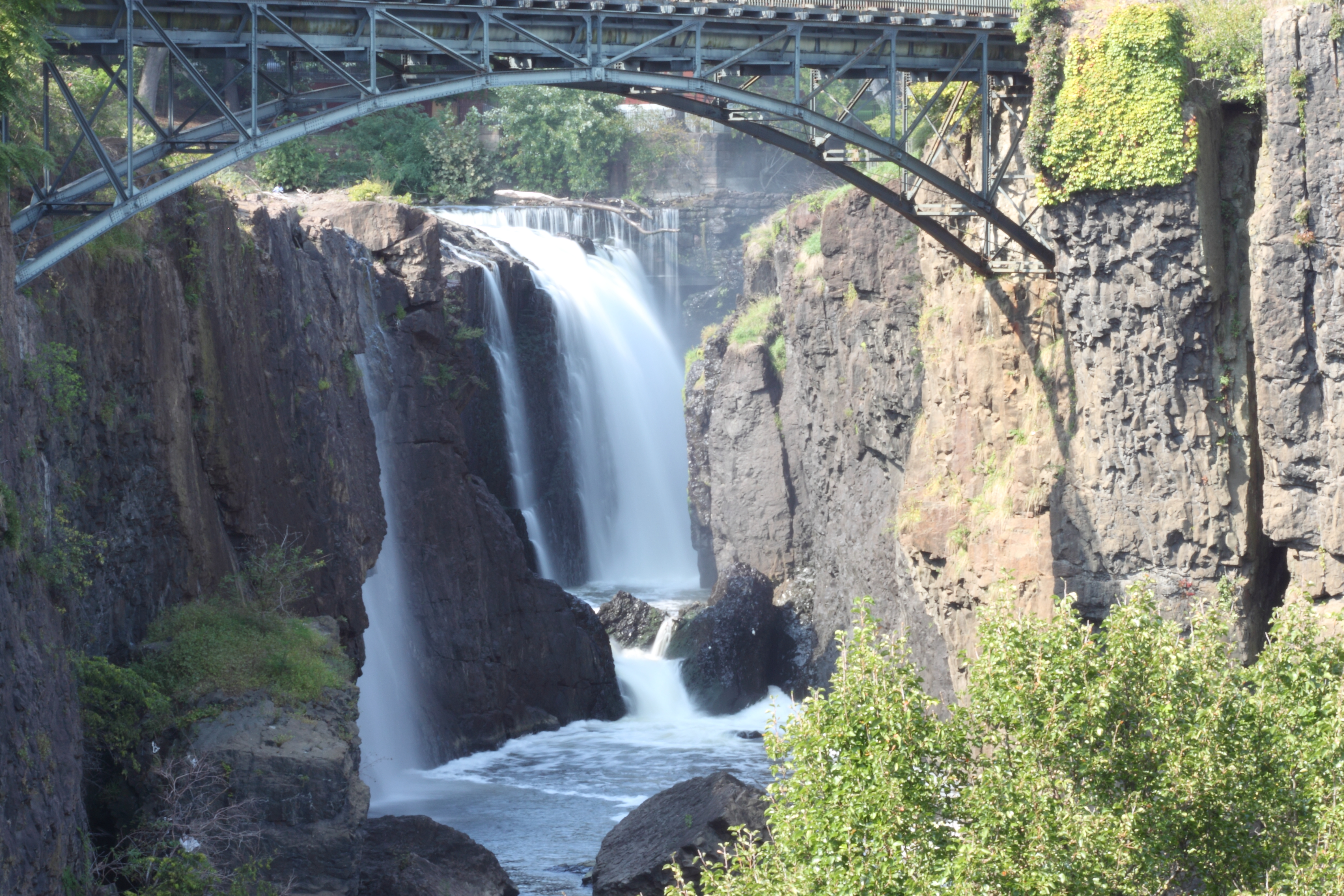 Goffle Brook Park